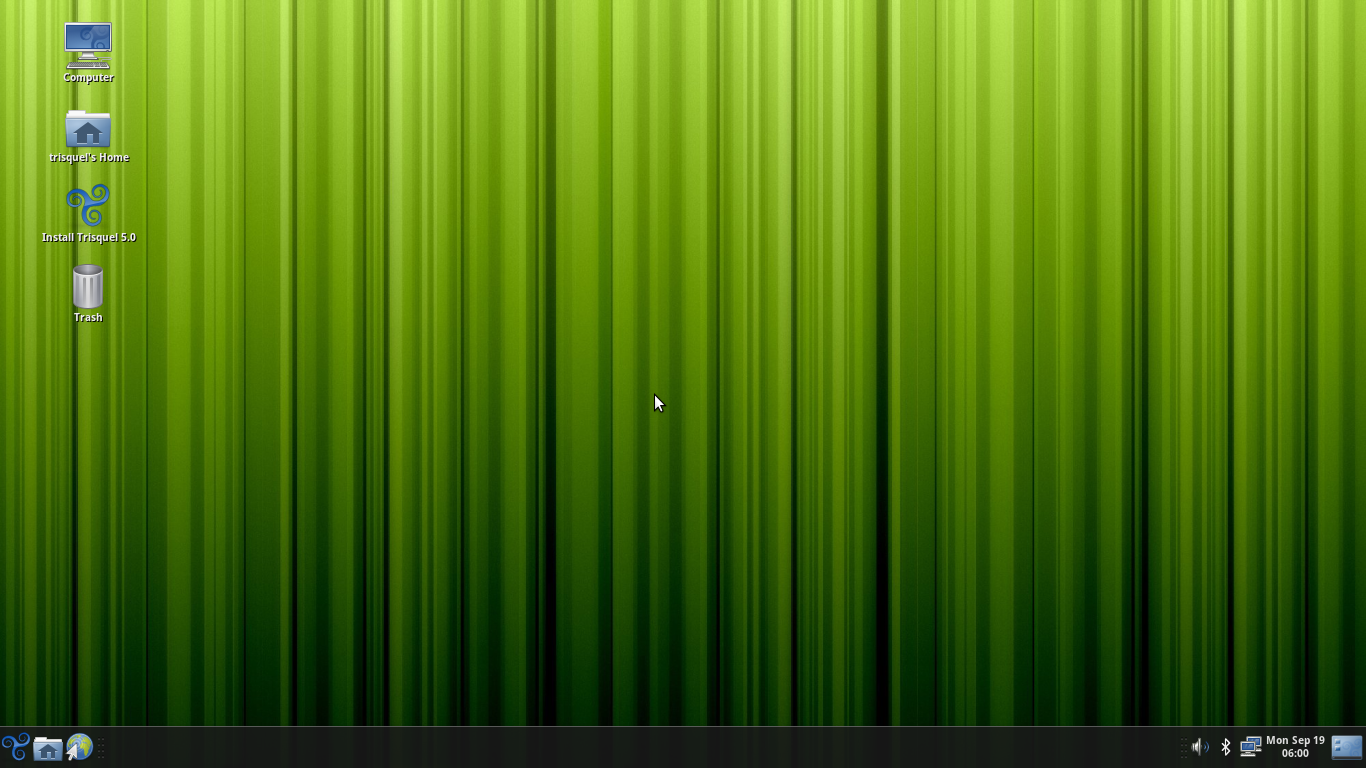 Desktop screenshot of Trisquel GNU/Linux 5.0 operating system.